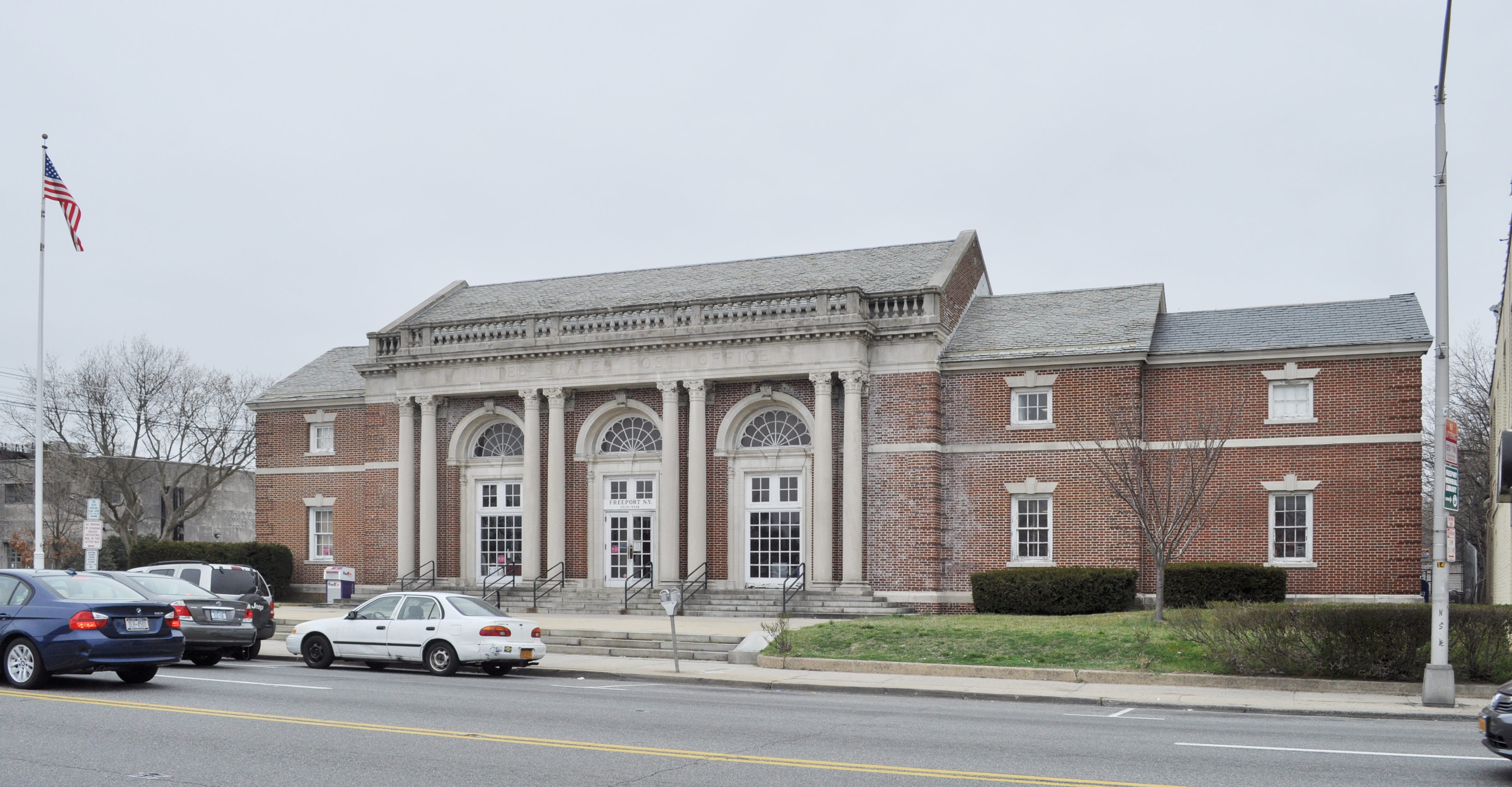 Post office, Freeport, Long Island, New York.